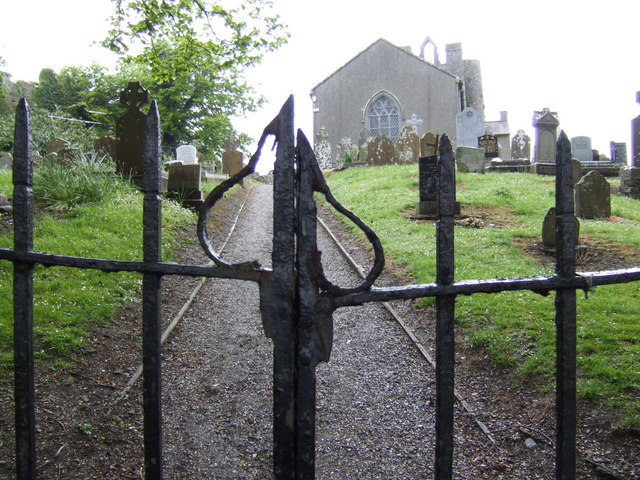 Iron gates and church at Balrothery